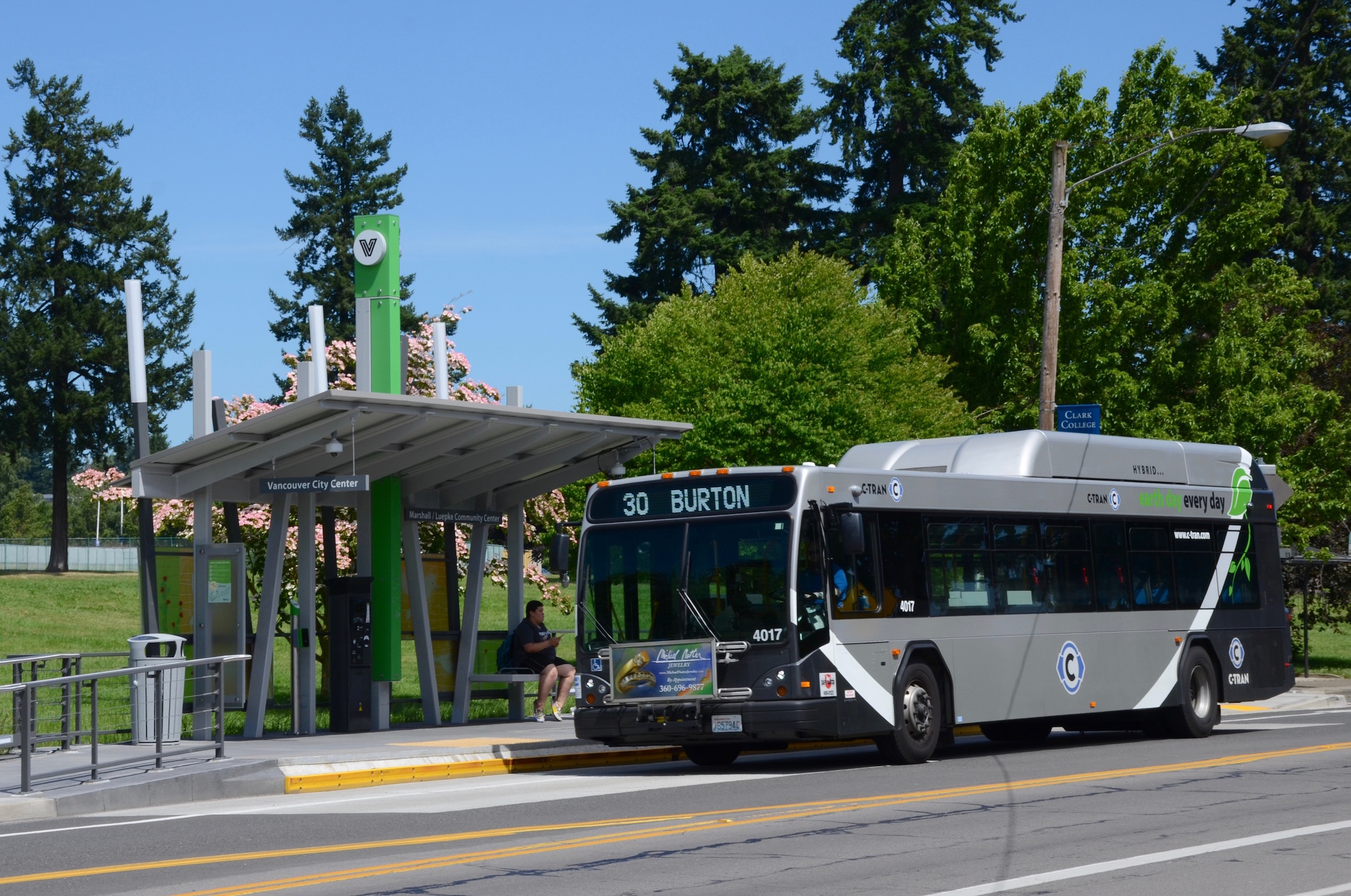 C-Tran bus 4017, a 2015 Gillig-built low-floor, 40-foot, hybrid-powered bus (Gillig model BRT-hybrid) westbound on E. McLoughlin Blvd., in service on route 30-Burton. It is passing the westbound Marshall/Luepke Community Center station of C-Tran's "The Vine" bus-rapid-transit service, after having stopped at a conventional C-Tran bus stop located just east of the Vine station.